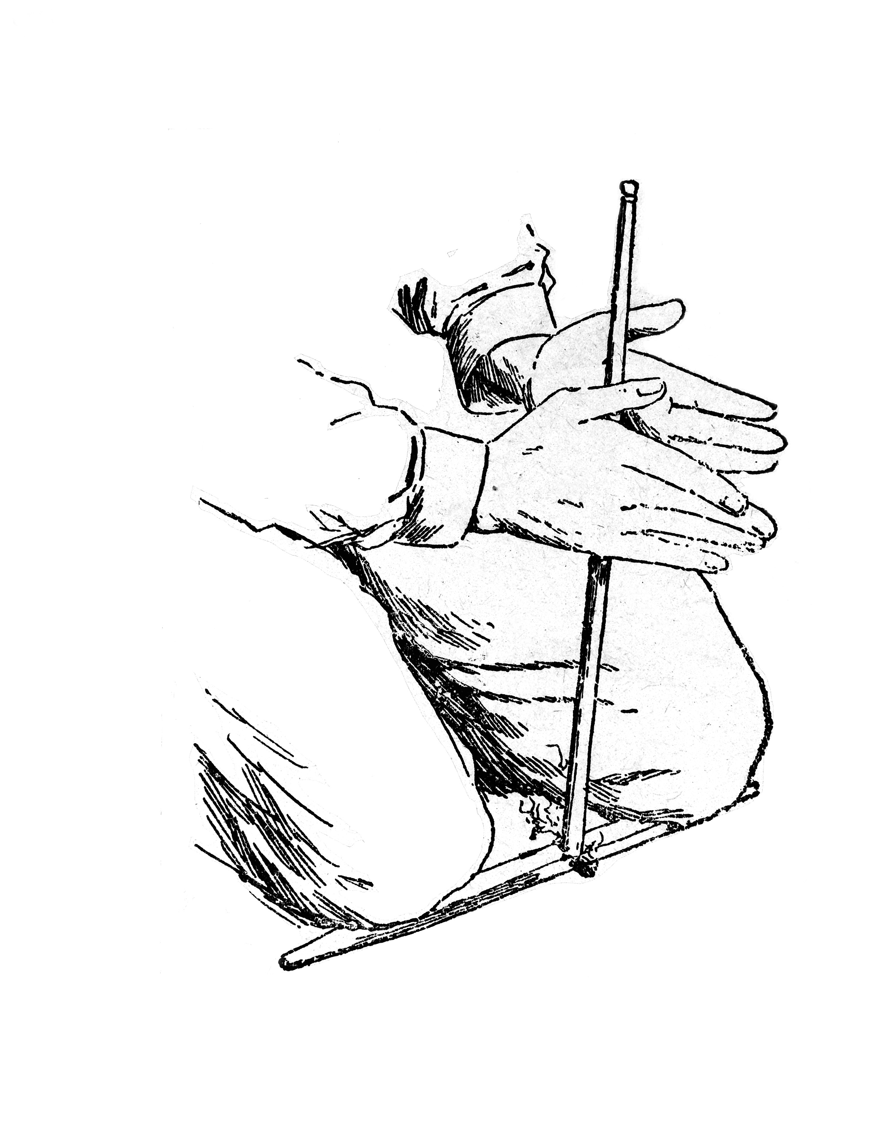 Illustration of fire-making with simple two-stick apparatus of the Hapas Wellcome Images Keywords: primitive knowledge; W Hough; Ethnography